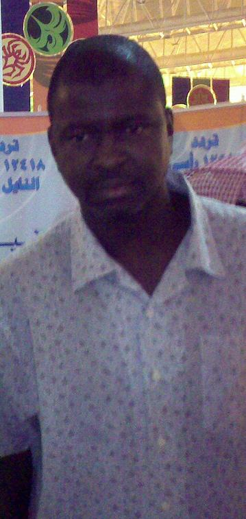 Hamzah Idris is a Saudi Arabian football (soccer) player who used to play as a striker for Ohud from 1992 to 1995 and then for Al Ittihad until he retired in 2007.